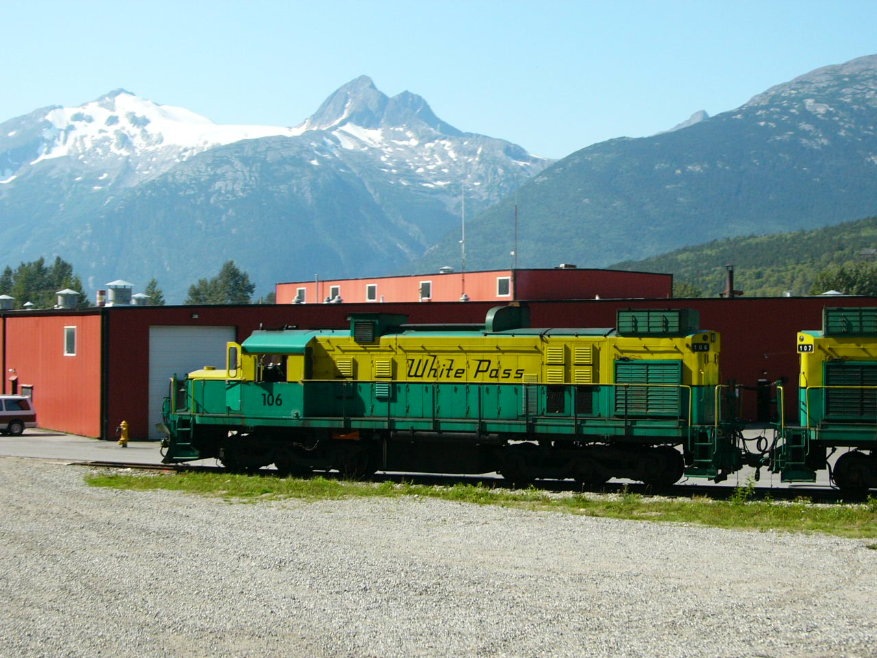 Yufei Yuan on August 12th, 2005.